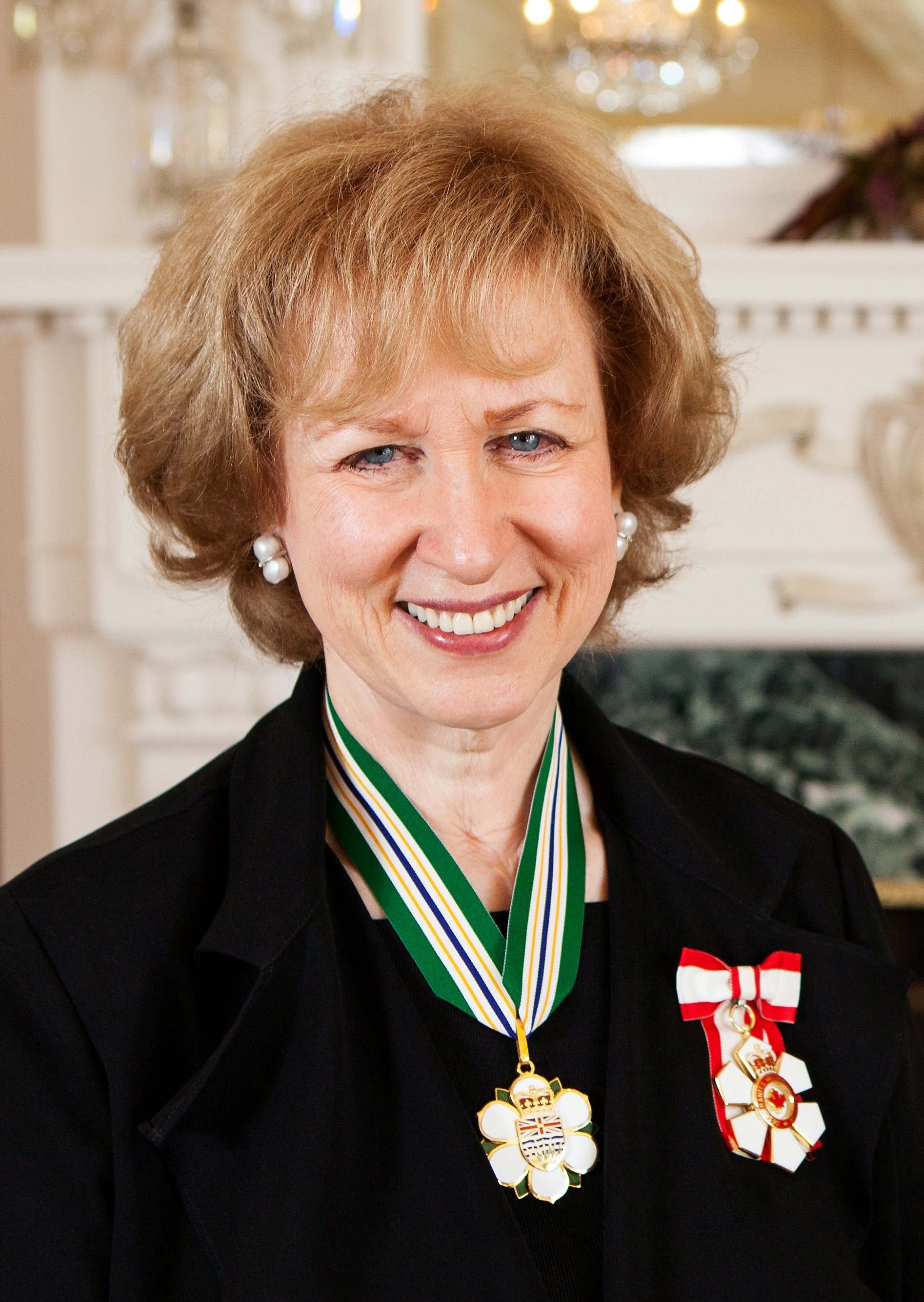 The Right Honourable Kim Campbell, PC, CC, OBC, QC, served as Canada’s 19th and first female Prime Minister in 1993 and continues to promote global democracy, international cooperation and women in politics, for which she was appointed a Companion of the Order of Canada.